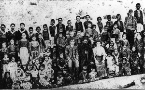 Greek priest and schoolteacher and kids in Starchevo